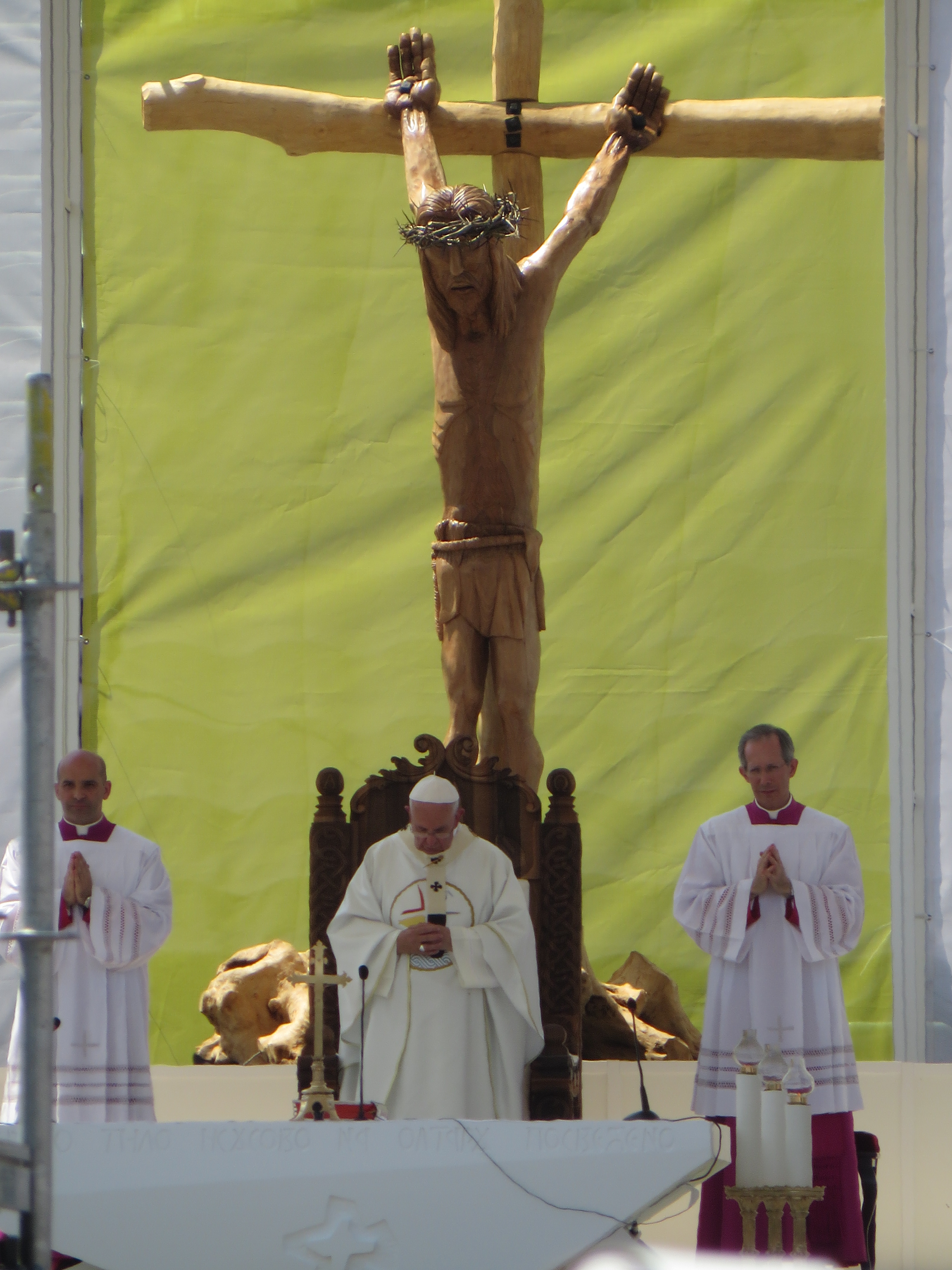 Pope Francis in Sarajevo